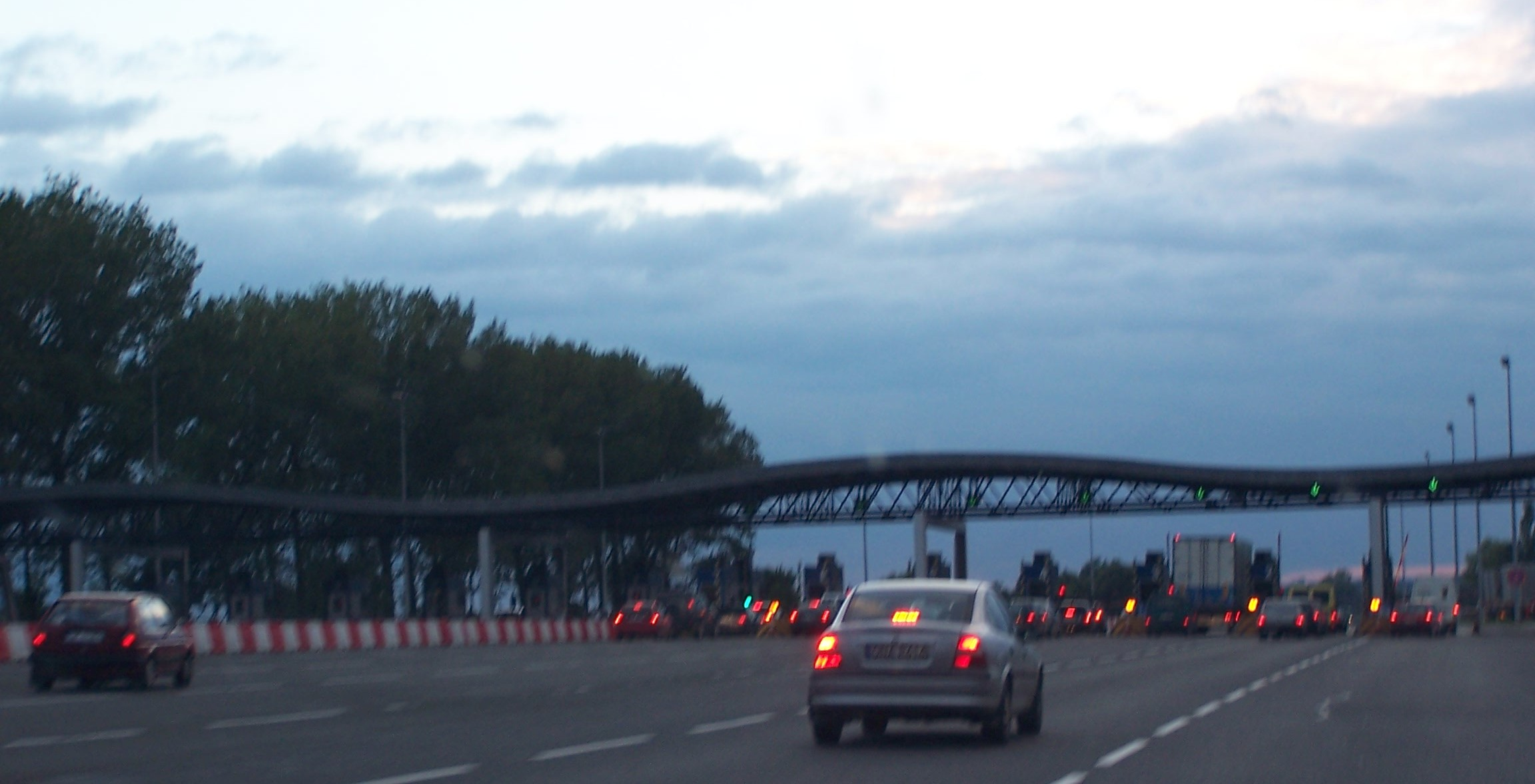 Highway A4 in Katowice (al. Górnośląska), Toll booths when entering near Kraków.